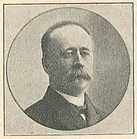 Alexander Hamilton (1855-1944), Swedish count, entailer and member of parliament.